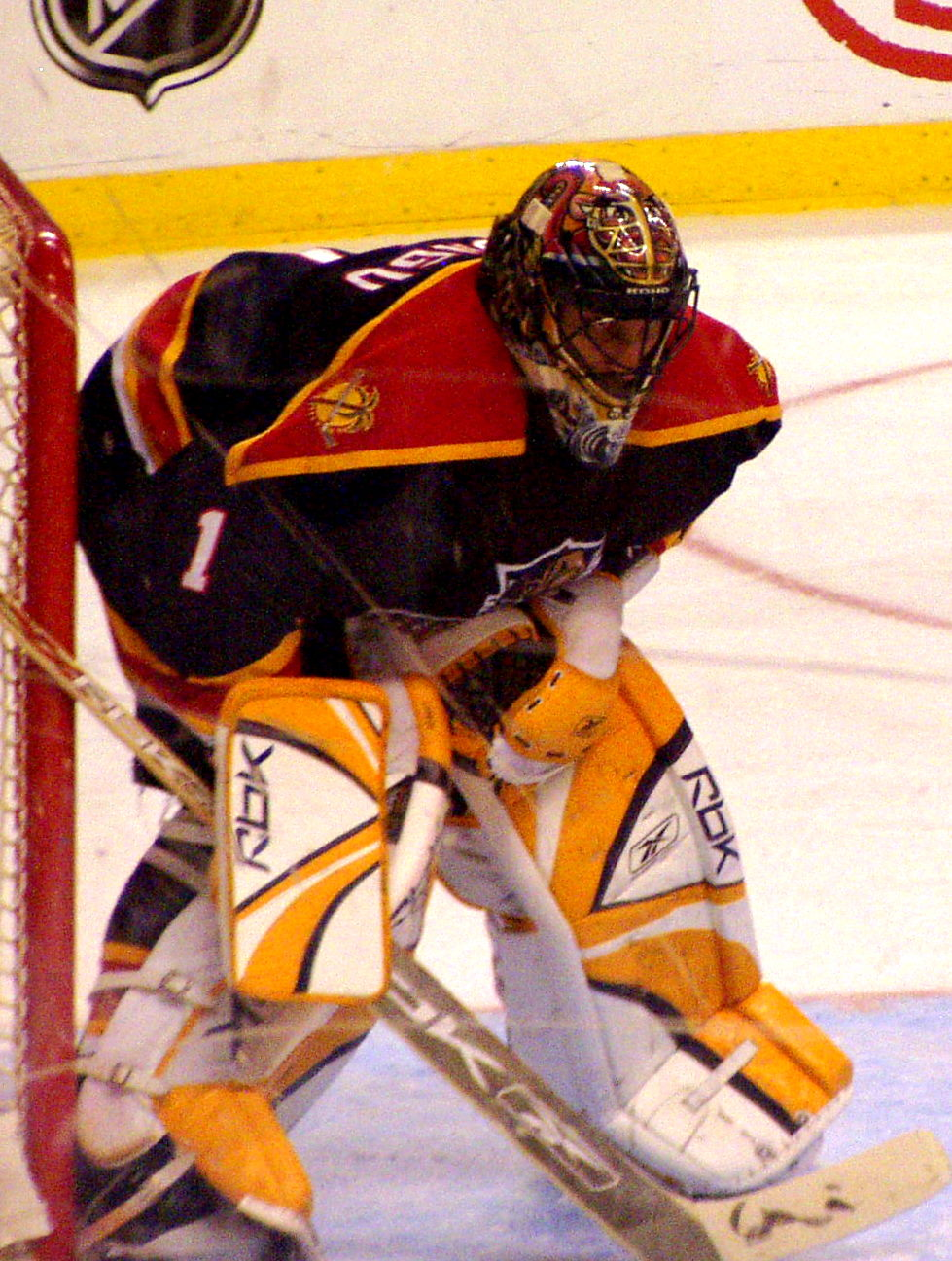 Roberto Luongo playing for the Florida Panthers.